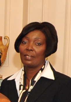 2010 International Women of Courage Awards